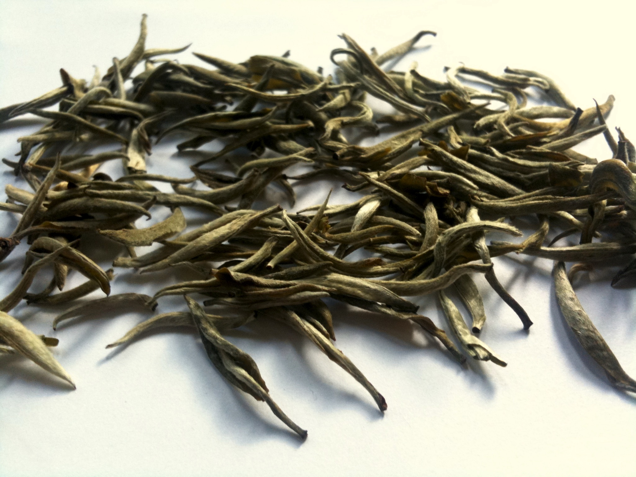 A 2010 first flush Bai Hao Yinzhen from Yunnan. Purchased at Yunnan Sourcing LLC in 2010.